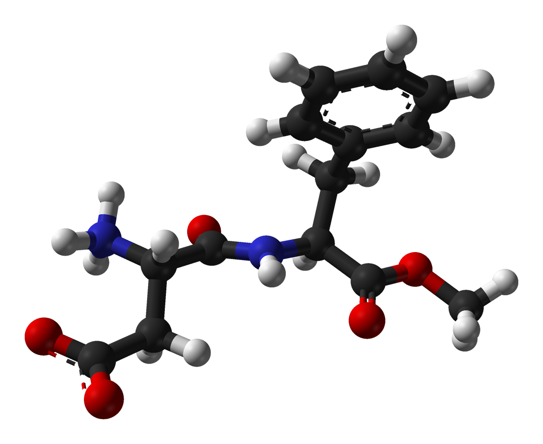 Ball-and-stick model of the aspartame molecule, C14H18N2O5. X-ray diffraction data from J. Pept. Res. (2000) 56, 97-104. Model constructed in CrystalMaker 8.1. Image generated in Accelrys DS Visualizer.